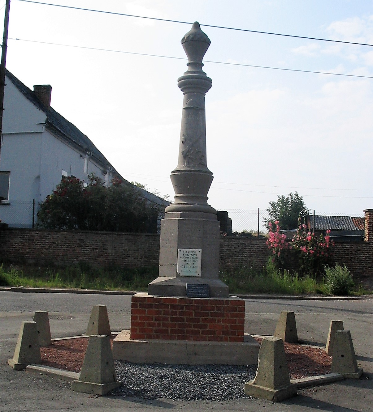 Monument aux morts de Genly (2003)